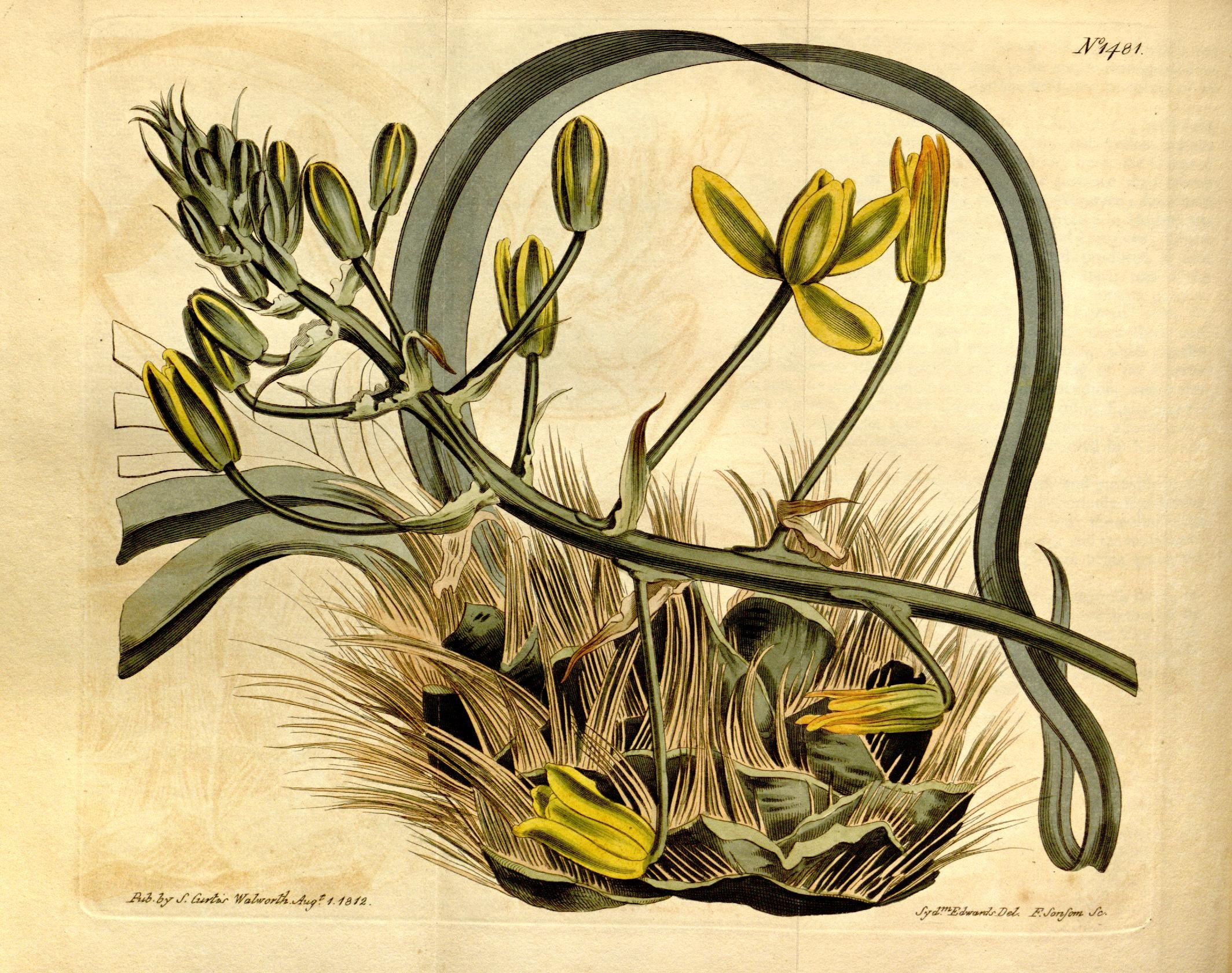 jVfyei. A£ 2.jy J\ tltr&y WalwerZh. isftup f /. id /2 Jyd" 1 !:^*^ Z?«£. J? Sort/em. Jh